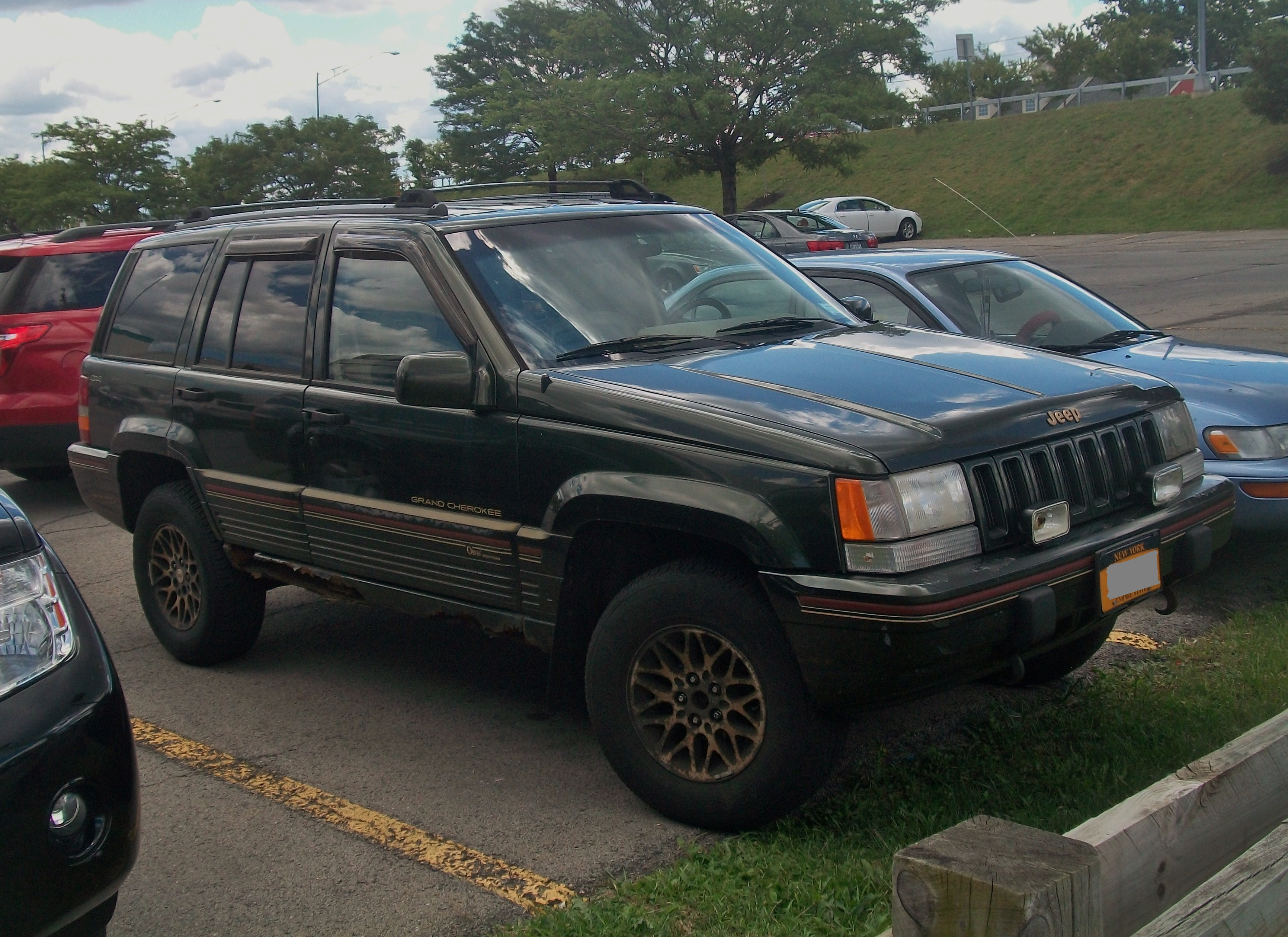 A 1995 Jeep Grand Cherokee in the limited edition Orvis trim line. Photographed in Greece, NY